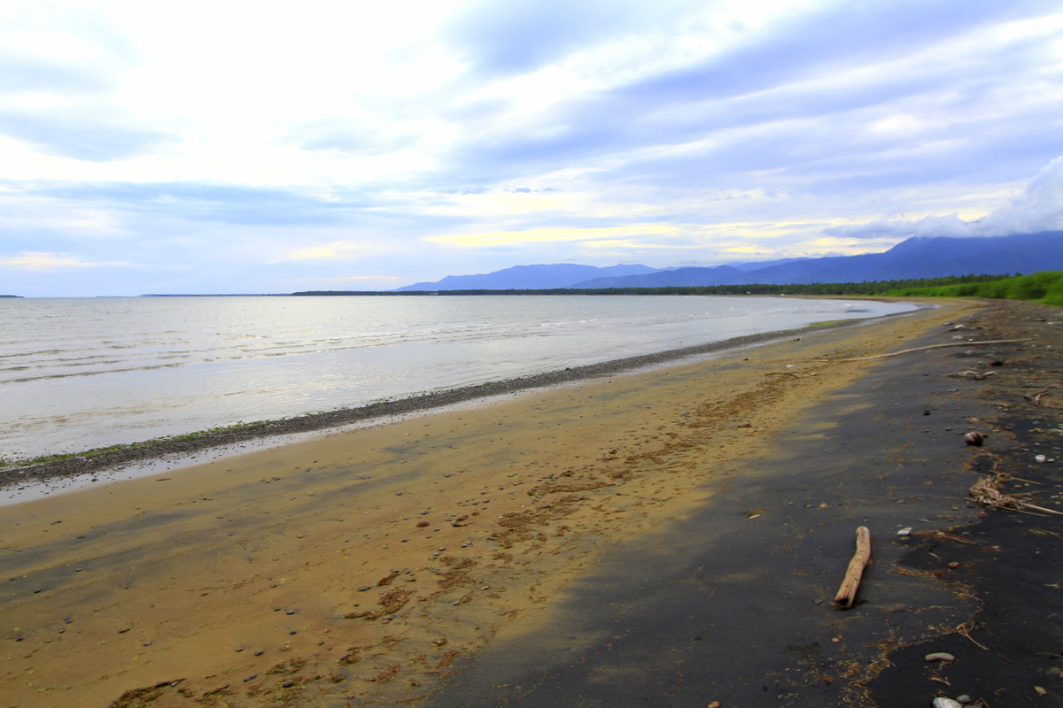 Beach in Brgy. Malatgao, Narra, Palawan